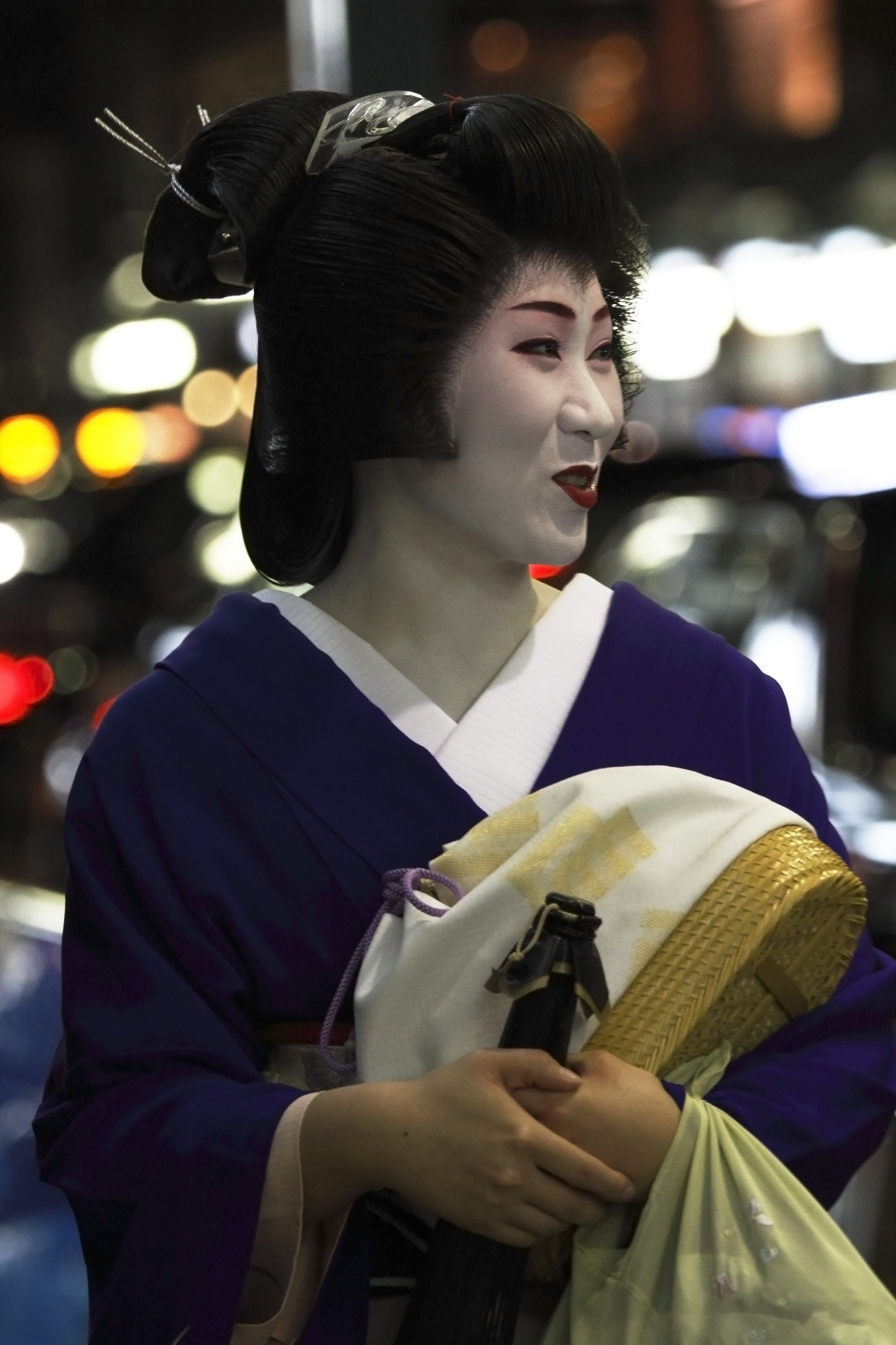 Geisha Manami (of Minoyae Okiya, Gion Kôbu) at a night street of Gion